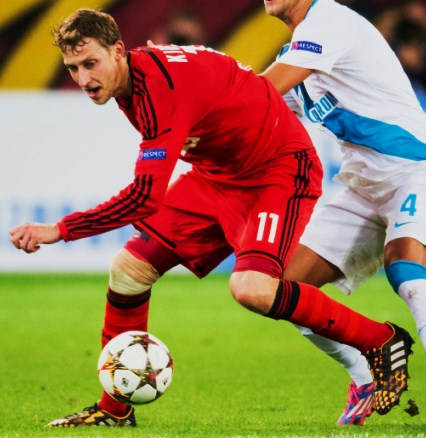 Stefan Kießling